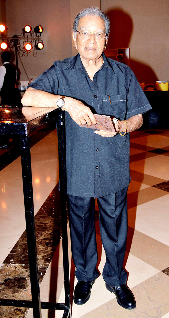 J Om Prakash at Amul Mohan’s wedding ceremony